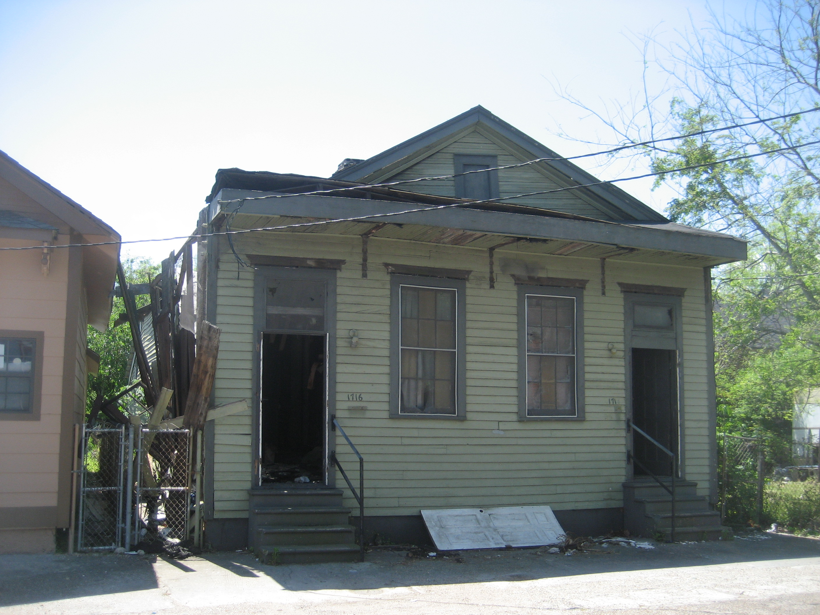 Former Bechet home, Marais Street, New Orleans. House was allowed to deteriorate through "demolition by neglect" and despite the pleas of preservationists was bulldozed a few months after this photo was taken.